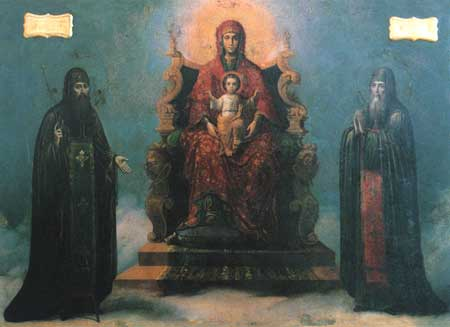 Saint Basil and Theodore, martyrs, monks of Kyiv Caves monastery, Ukraine. Died martyr death in 1098.